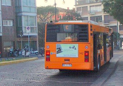 BredaMenarini 240L bus of public service (ACTV) in Venice Lido.